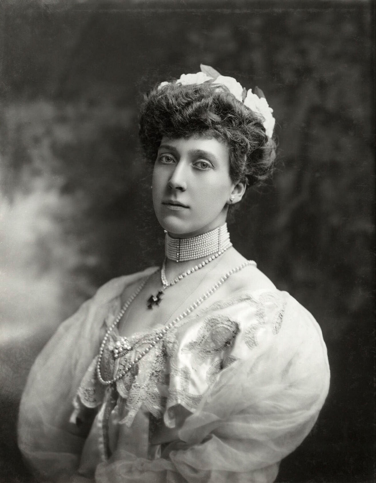 Princess Marie Louise of Schleswig-Holstein (1872-1956), Patron of the arts and philanthropist; daughter of Prince Christian of Schleswig-Holstein and granddaughter of Queen Victoria. Sitter associated with 60 portraits.